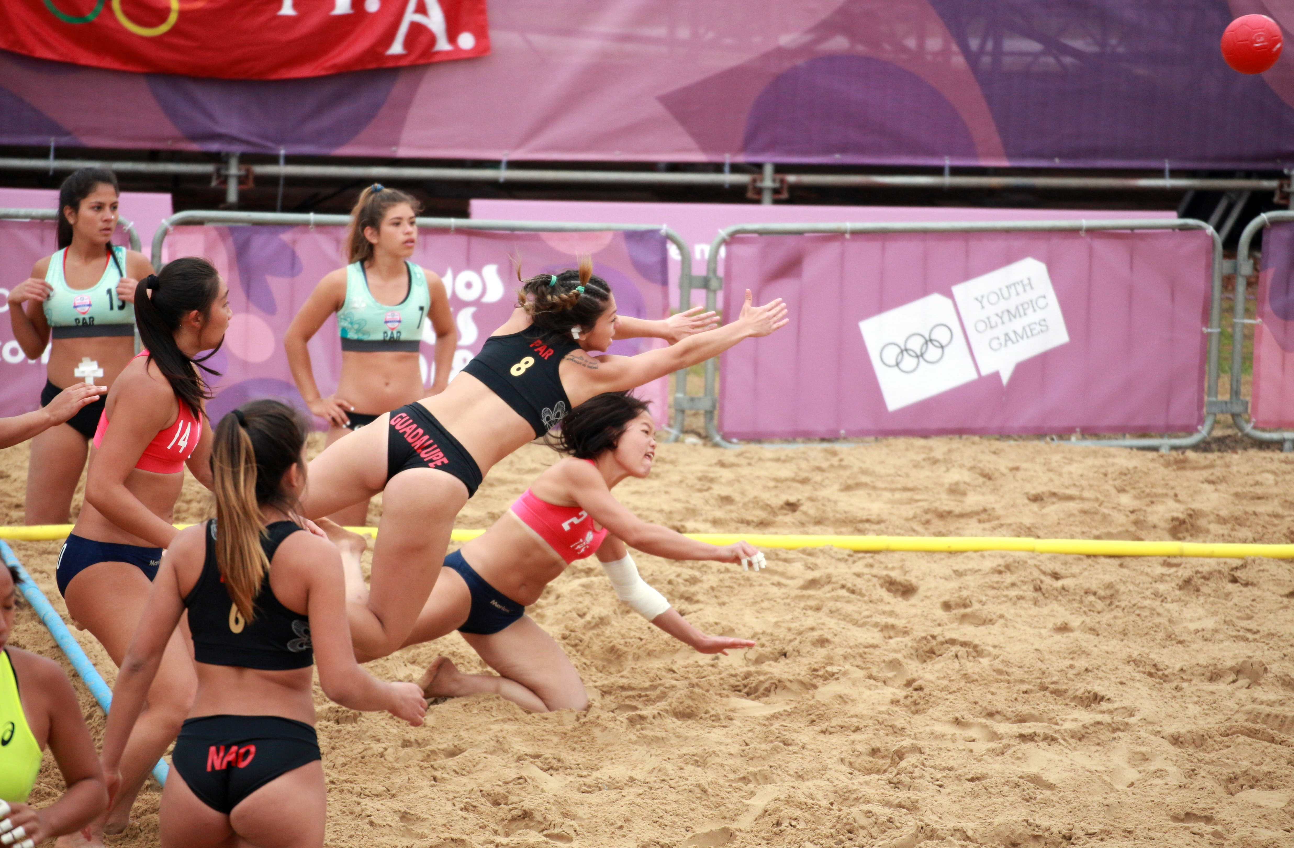 Beach handball at the 2018 Summer Youth Olympics at 12 October 2018 – Girls Main Round – Chinese Taipei (Taiwan)-Paraguay 0:2